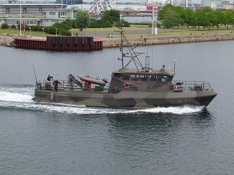 HMS Östhammar (V11) in Malmö harbour 2003.